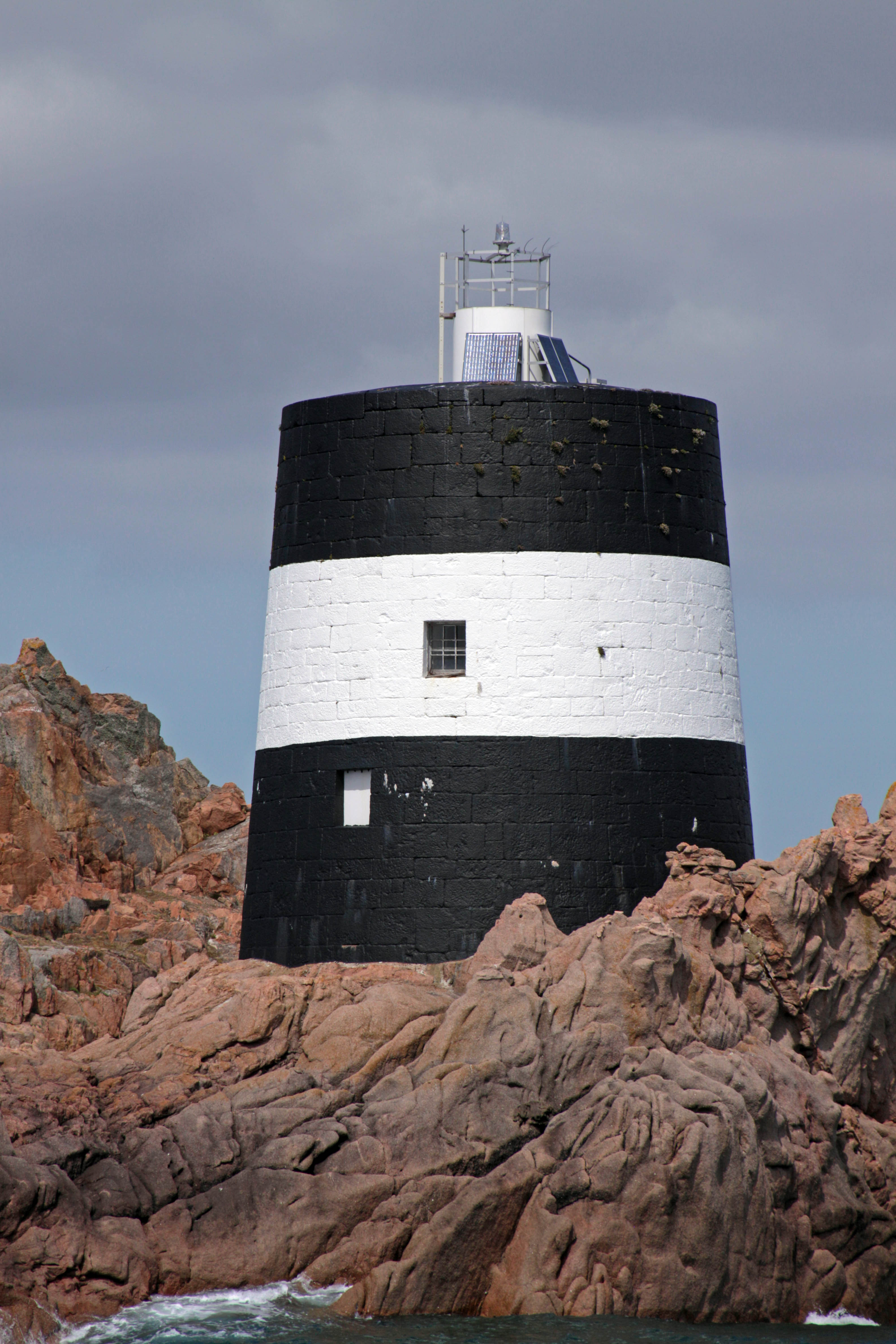 Wars apart Nrf: La Tou d'Vînde, Saint Brélade, Jèrri